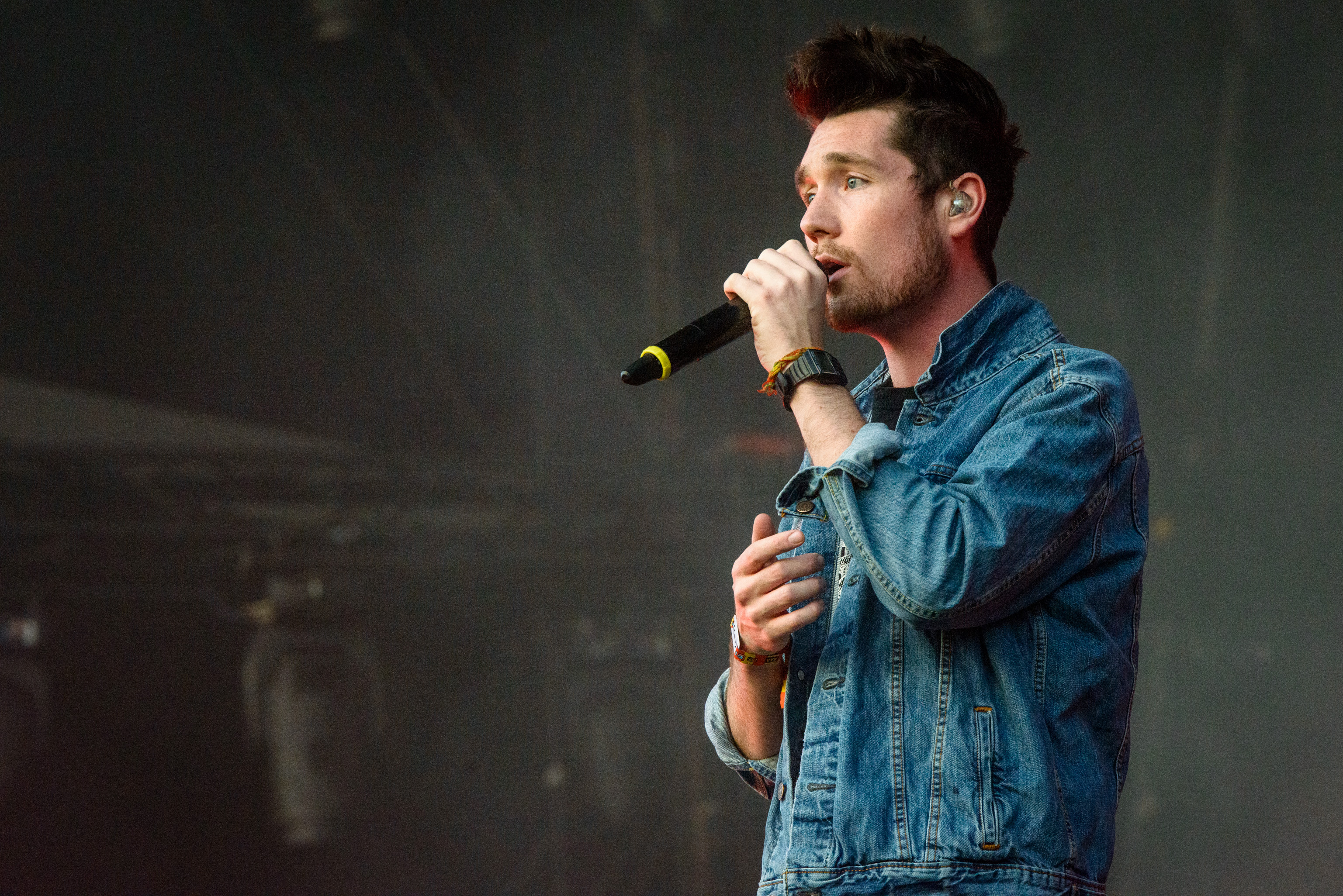 Bastille @ Lollapalooza 2015